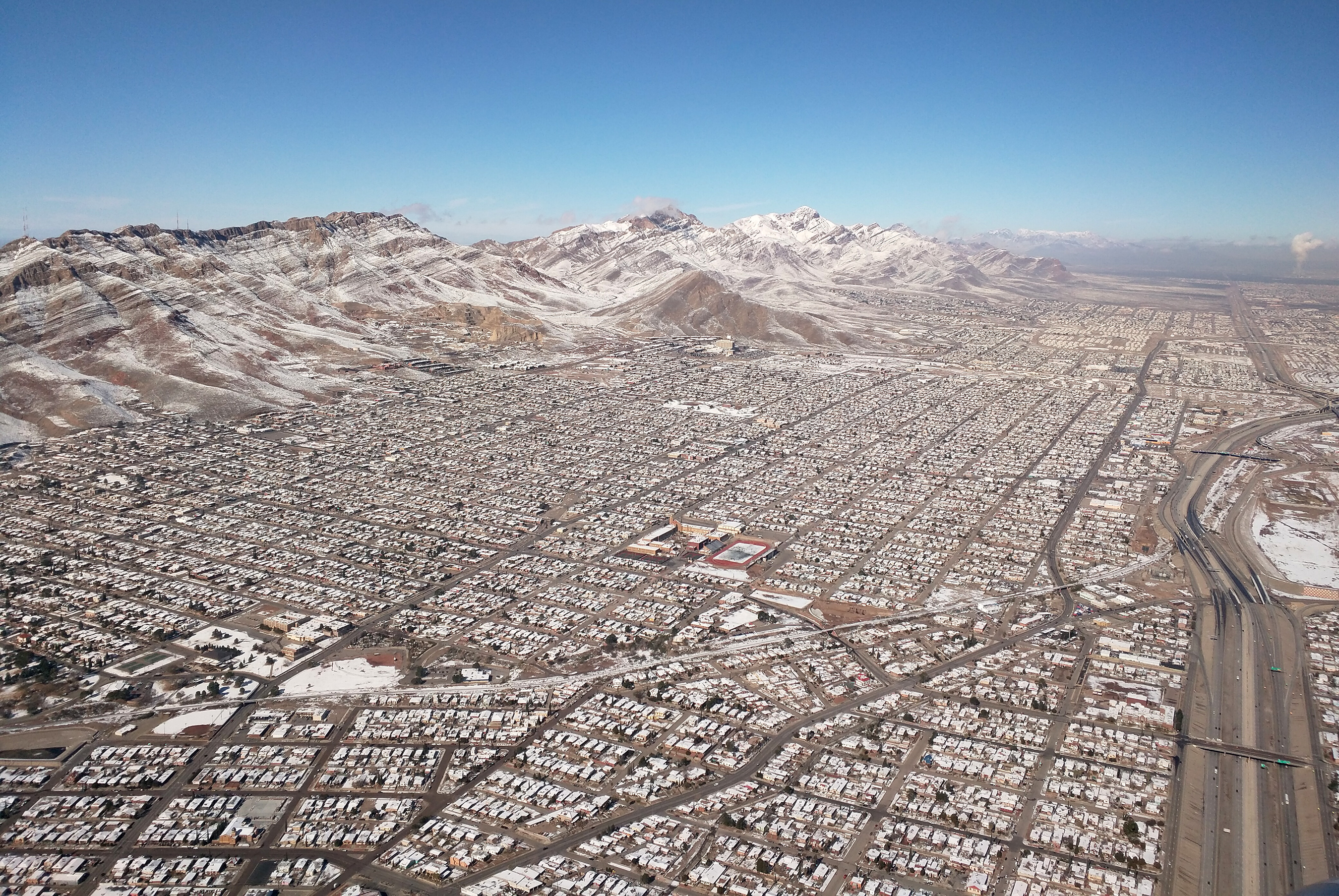 The Franklin Mountains with snow from winter storm Goliath, Dec. 28 2015; El Paso, Texas, neighborhoods around Austin High School (center) are shown, from central El Paso at the bottom to Northeast El Paso at the top. The Patriot Freeway (aka the North-South Freeway), US highway 54, is on the right.